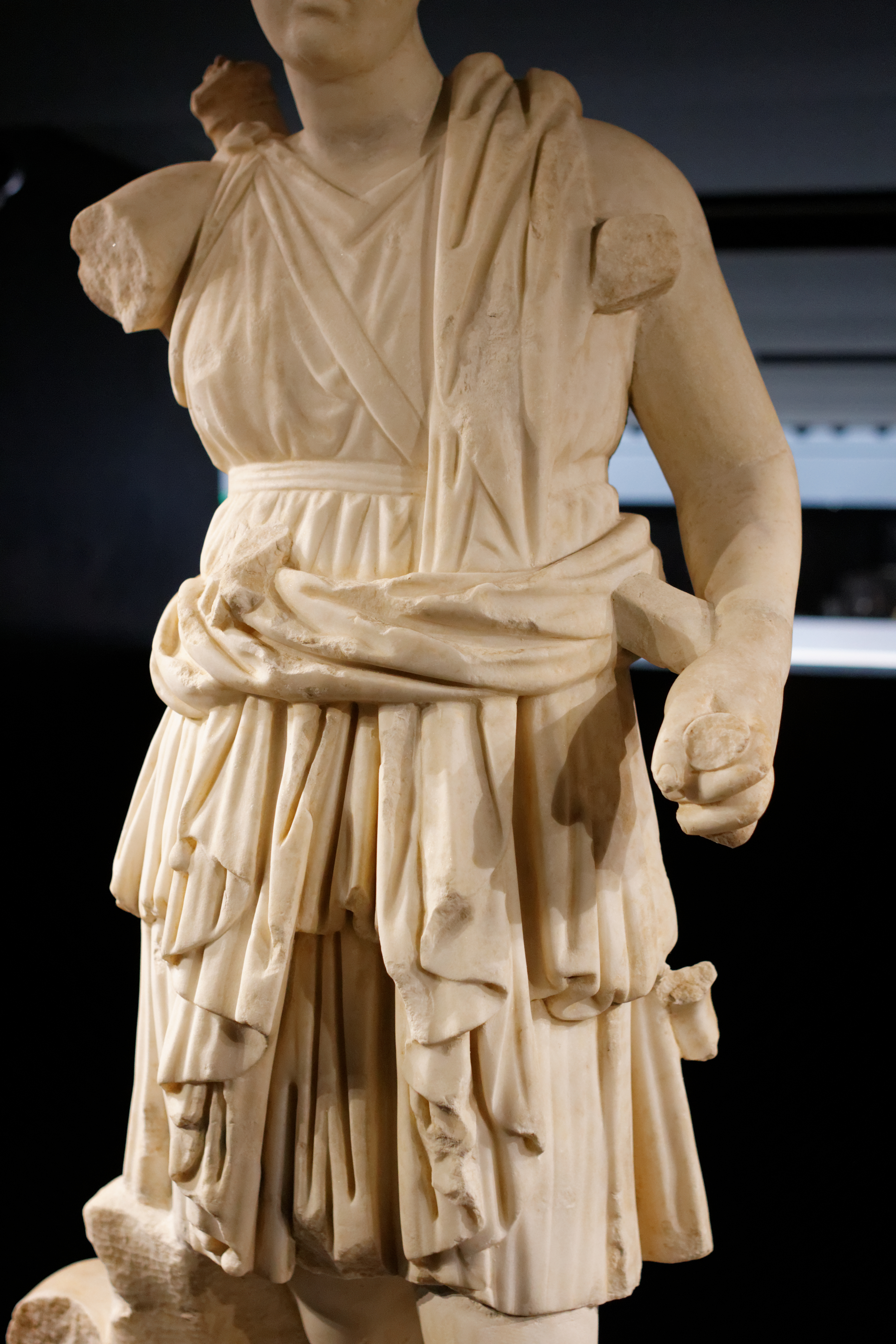 Depicted as a huntress, like the Diana of Versailles, derived from a Greek model of the fourth century BC., Artemis, wearing a short tunic, should bring the right hand to his quiver to shoot an arrow. The doe that accompanied her has disappeared.